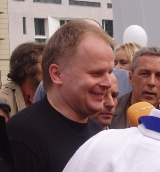 Herbert Grönemeyer at an interview during the 1st White-Band-Days in Berlin